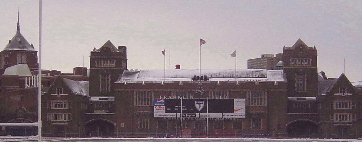 Category:University of Pennsylvania